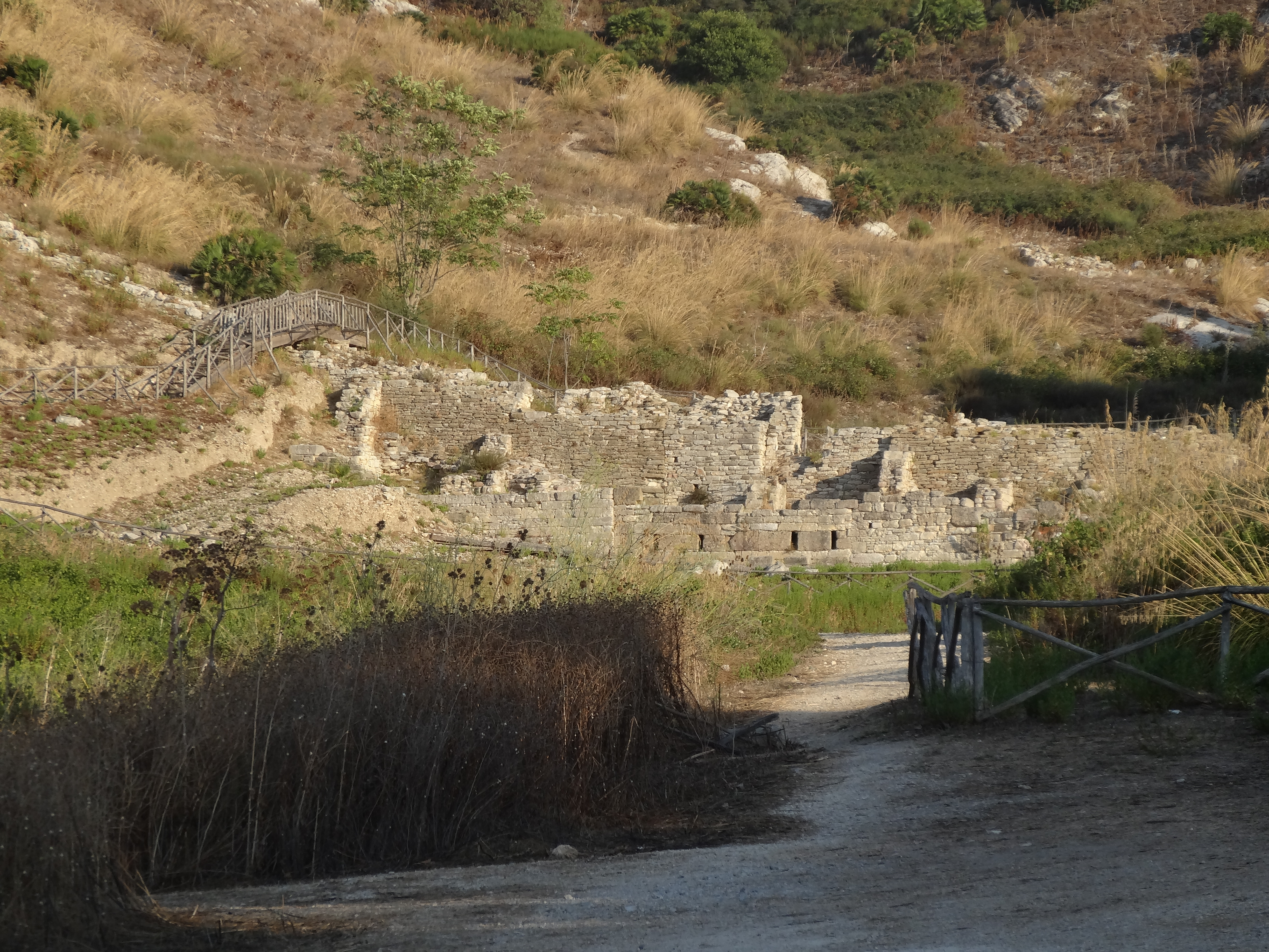 segesta2013